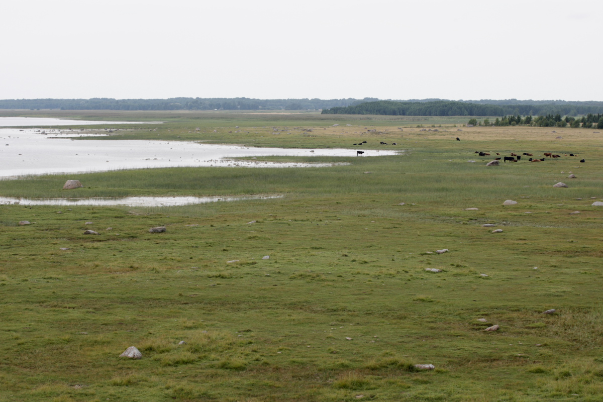 The coast near Haeska, a village in Ridala municipality, Lääne County, Estonia